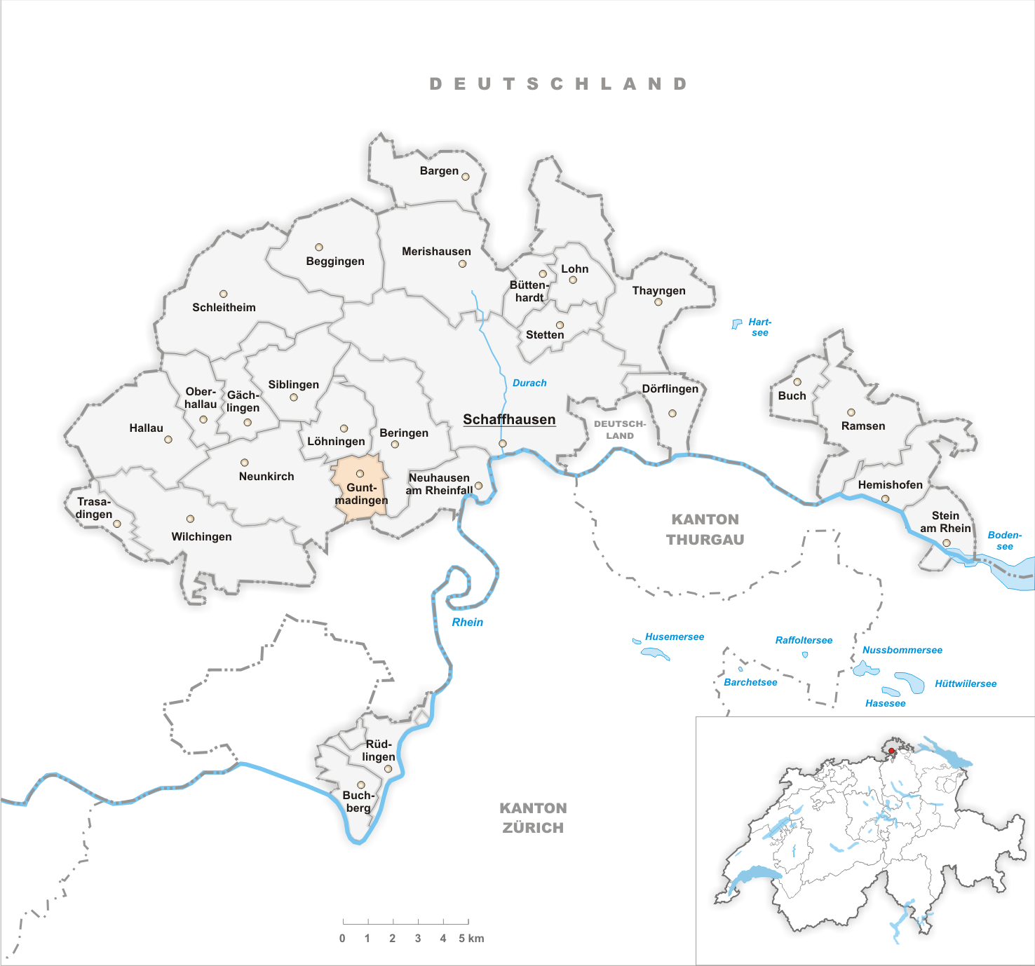 Municipality Guntmadingen